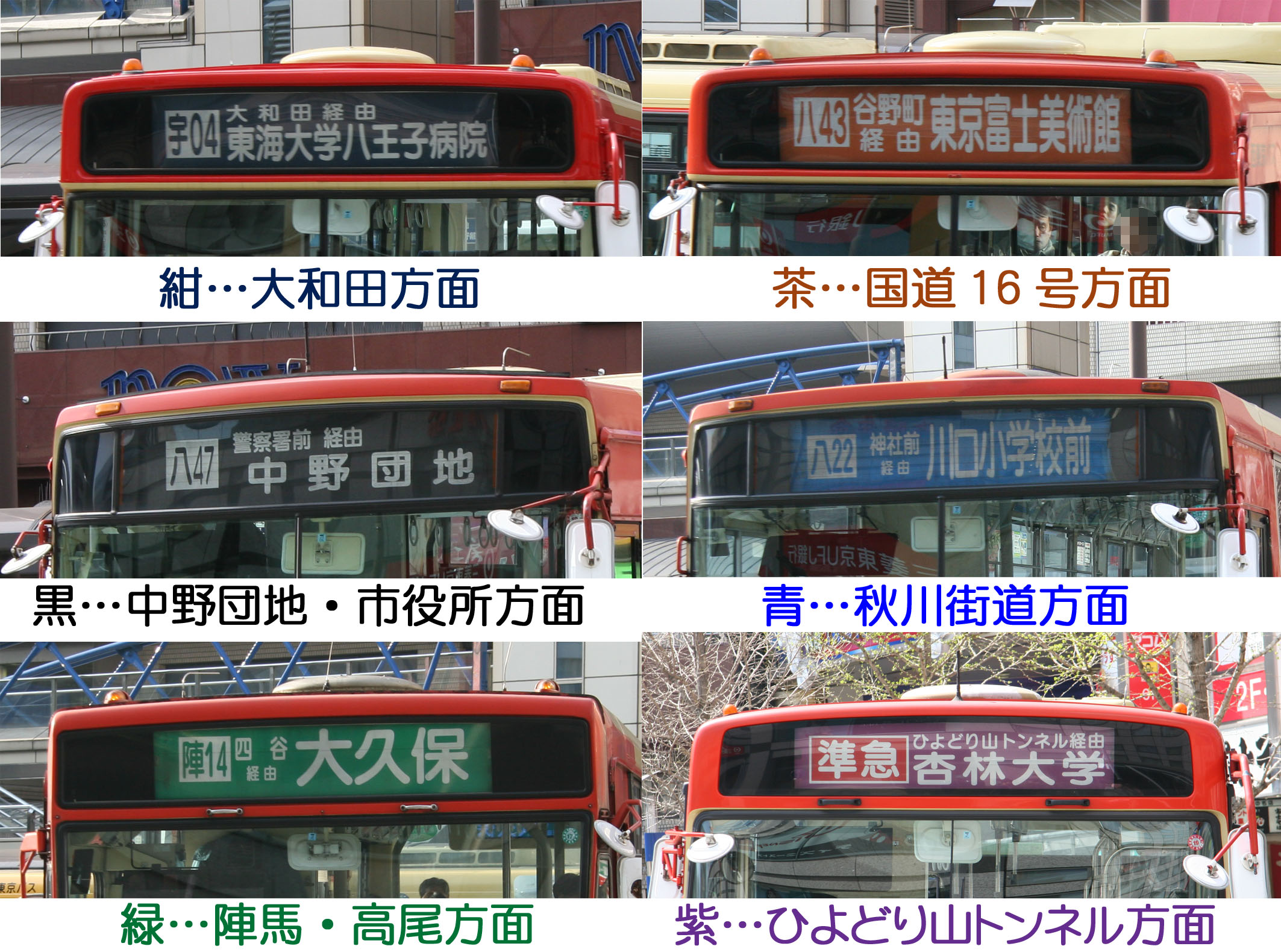 Colored rollsign of Nishi Tokyo Bus